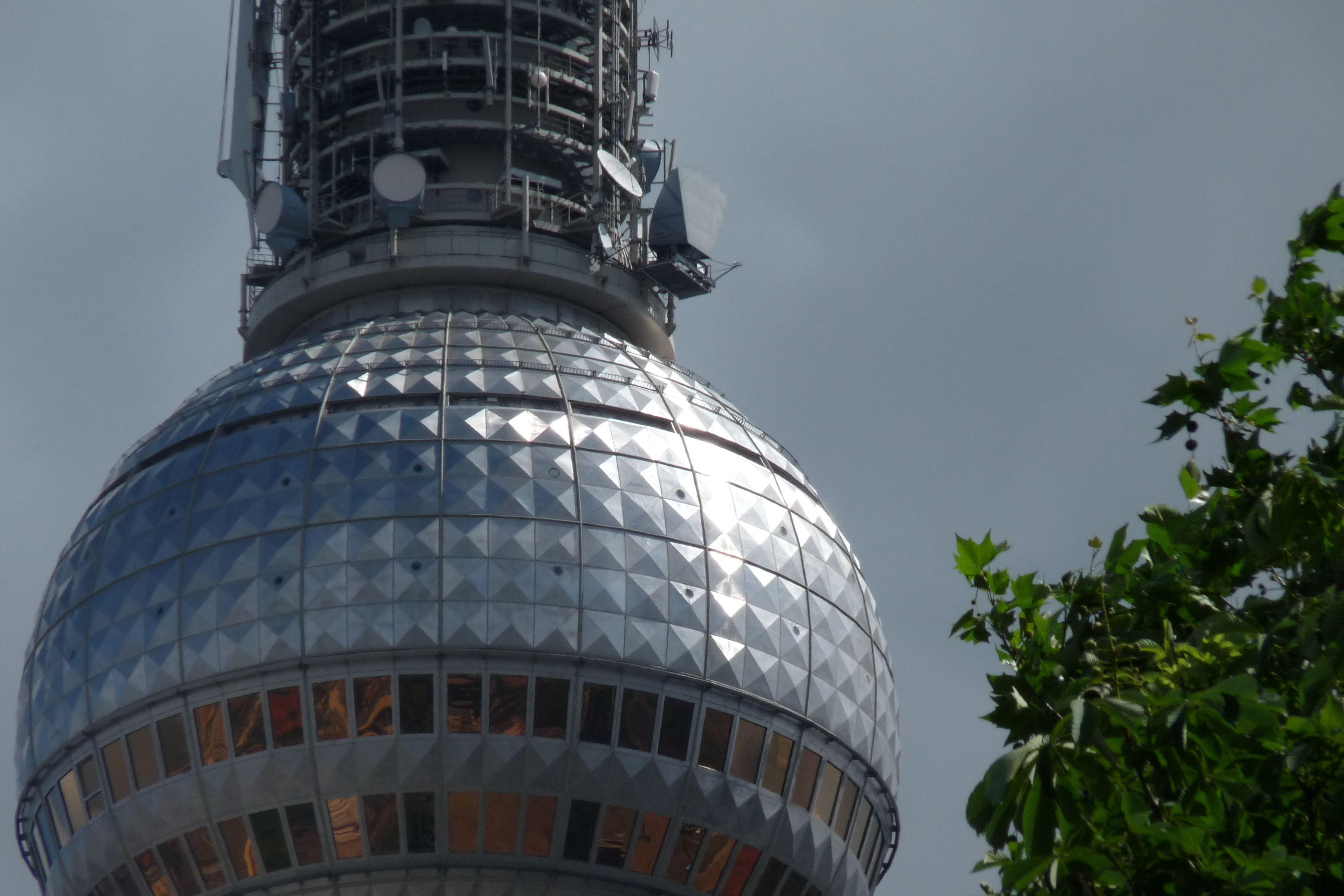 Fernsehturm with sun-mistake